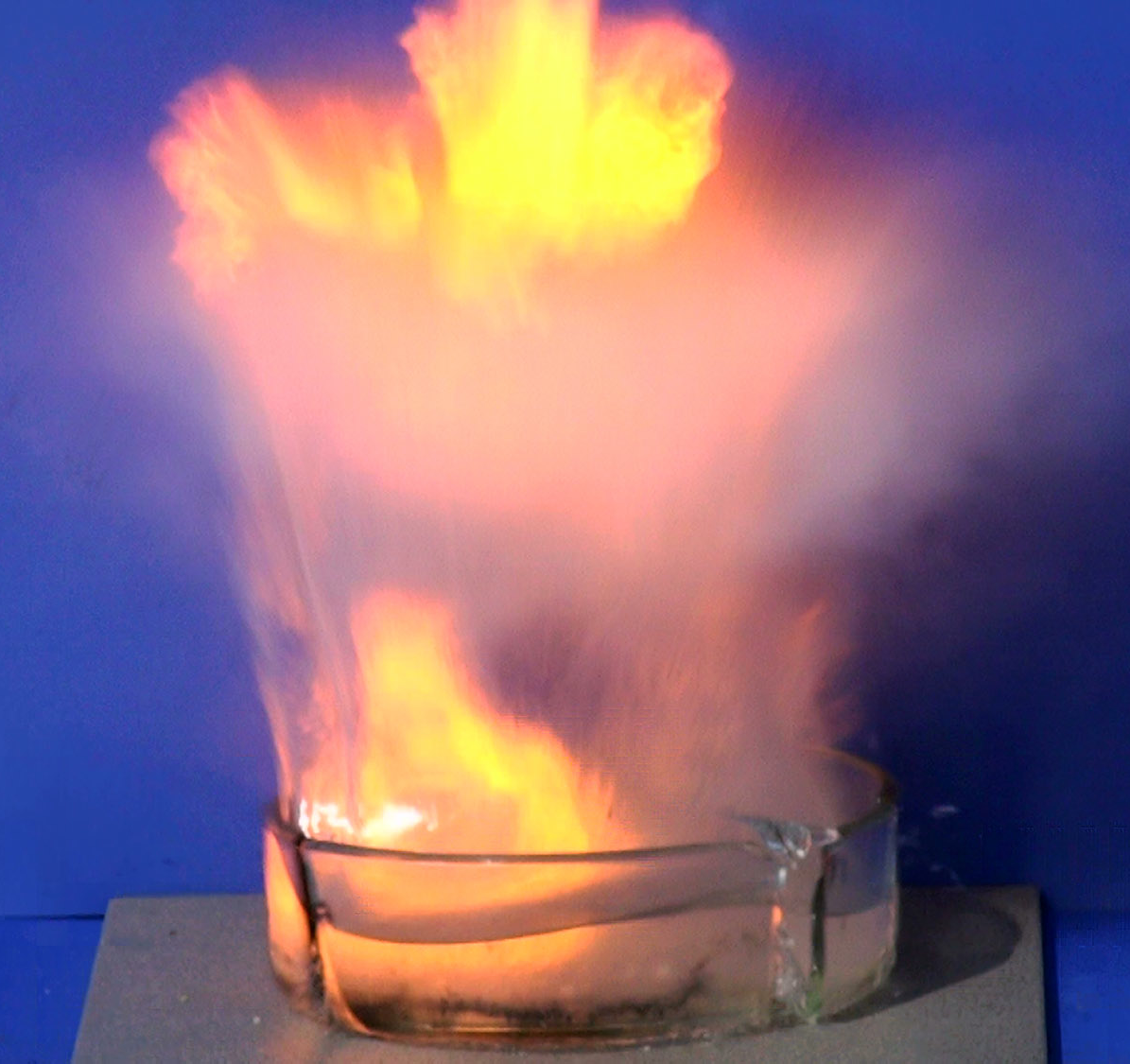 Reaction of sodium and water breaks the glass vessel